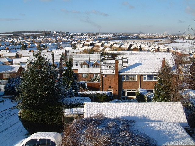 Minster on Sea Snow Scene View looking West above the roof tops of Minster on Sea